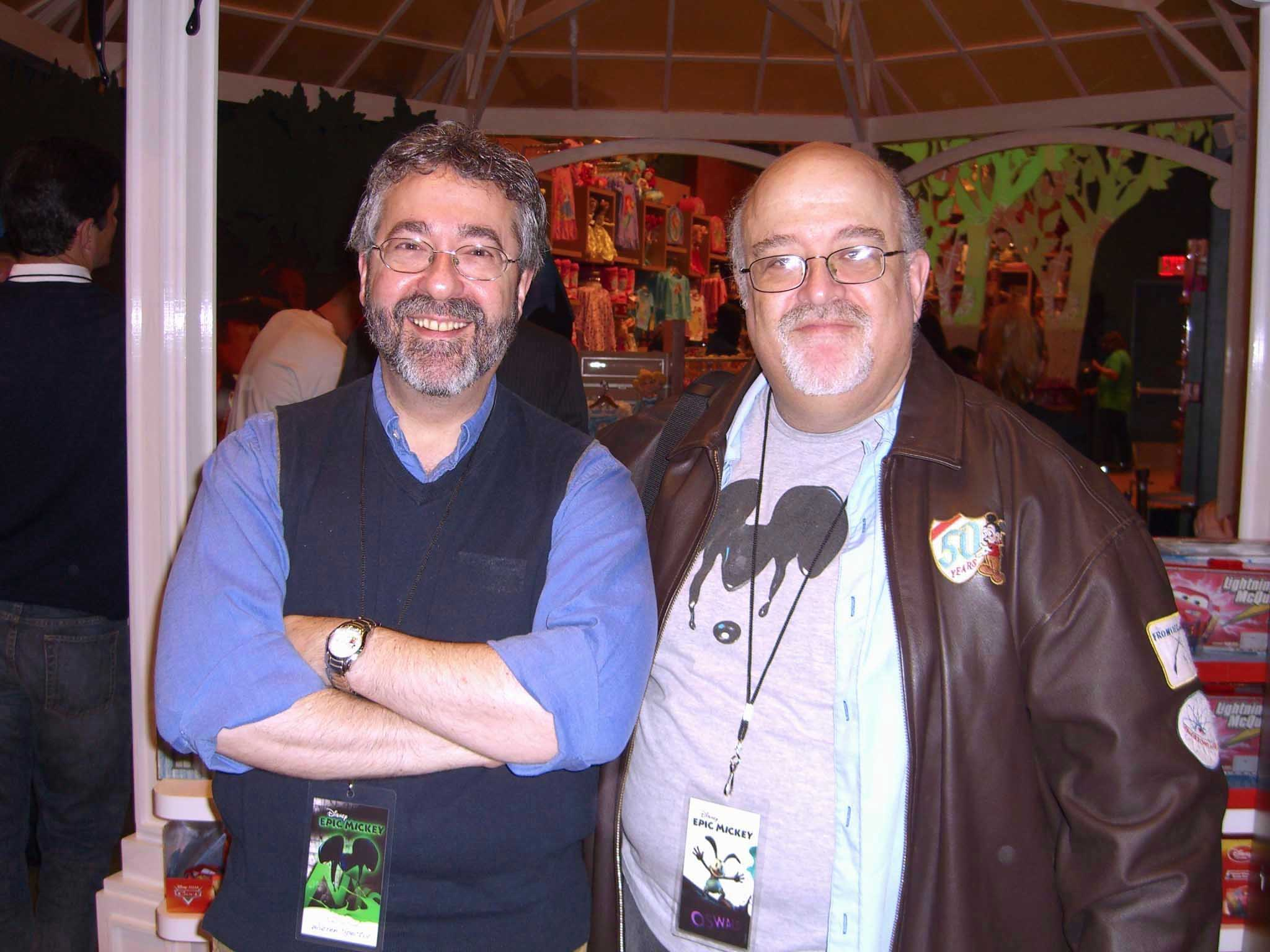 Video game designer Warren Spector and writer Peter David, at the November 30, 2010 launch party for the Disney video game Epic Mickey at the Times Square Disney Store in Manhattan. Warren was the designer of Epic Mickey, his first project for Disney Interactive, while David wrote the games graphic novel adaptation, as well as the prequel digicomic, Disney’s Epic Mickey: Tales of Wasteland. Photographed by Luigi Novi. This photo is not in the public domain. It may, however, be used, modified and published for any purpose, only if an easily visible credit to the photographer is placed near the photo in each instance in which it is used. (See licensing information below.) Publication of this photo without this proper attribution constitutes copyright infringement. For more information on my photos, you can contact me here.